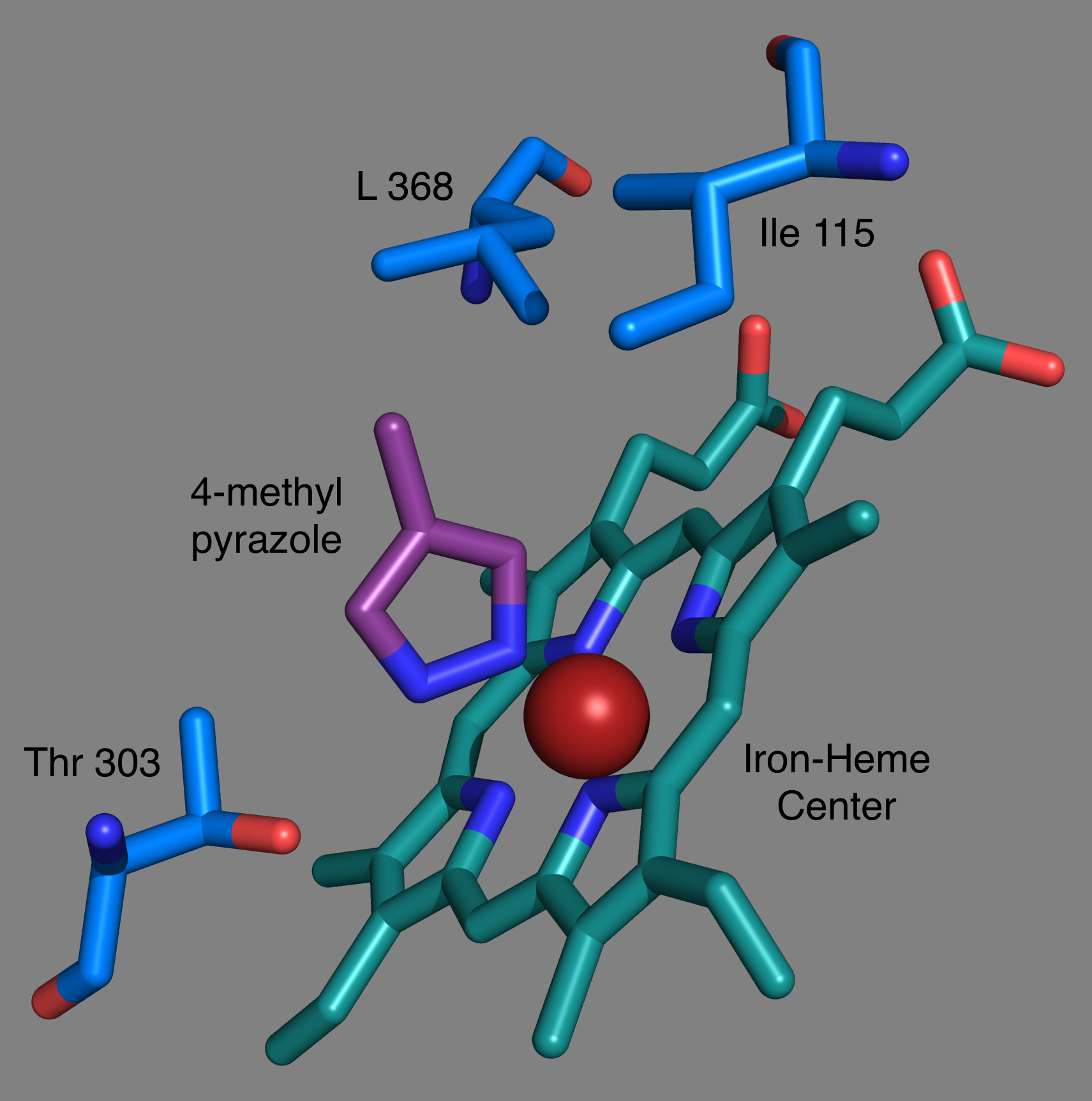 Depiction of enzyme crystal structure created in PyMol